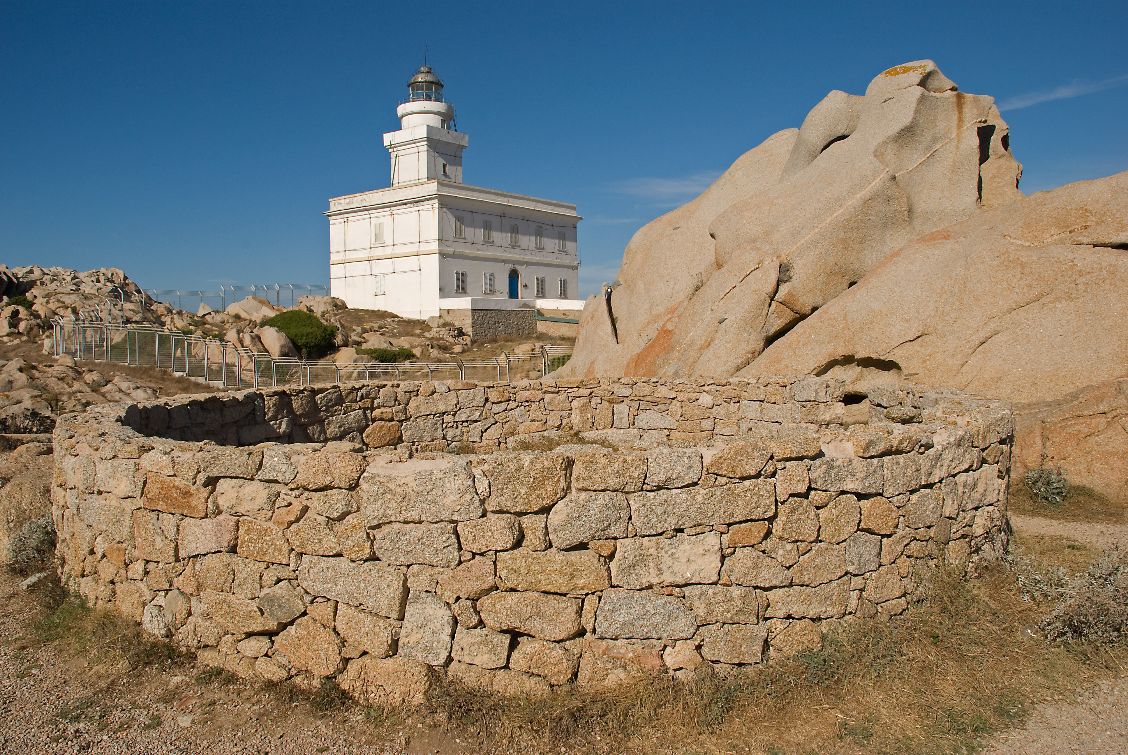 Capo Testa, Sardinia, Italy